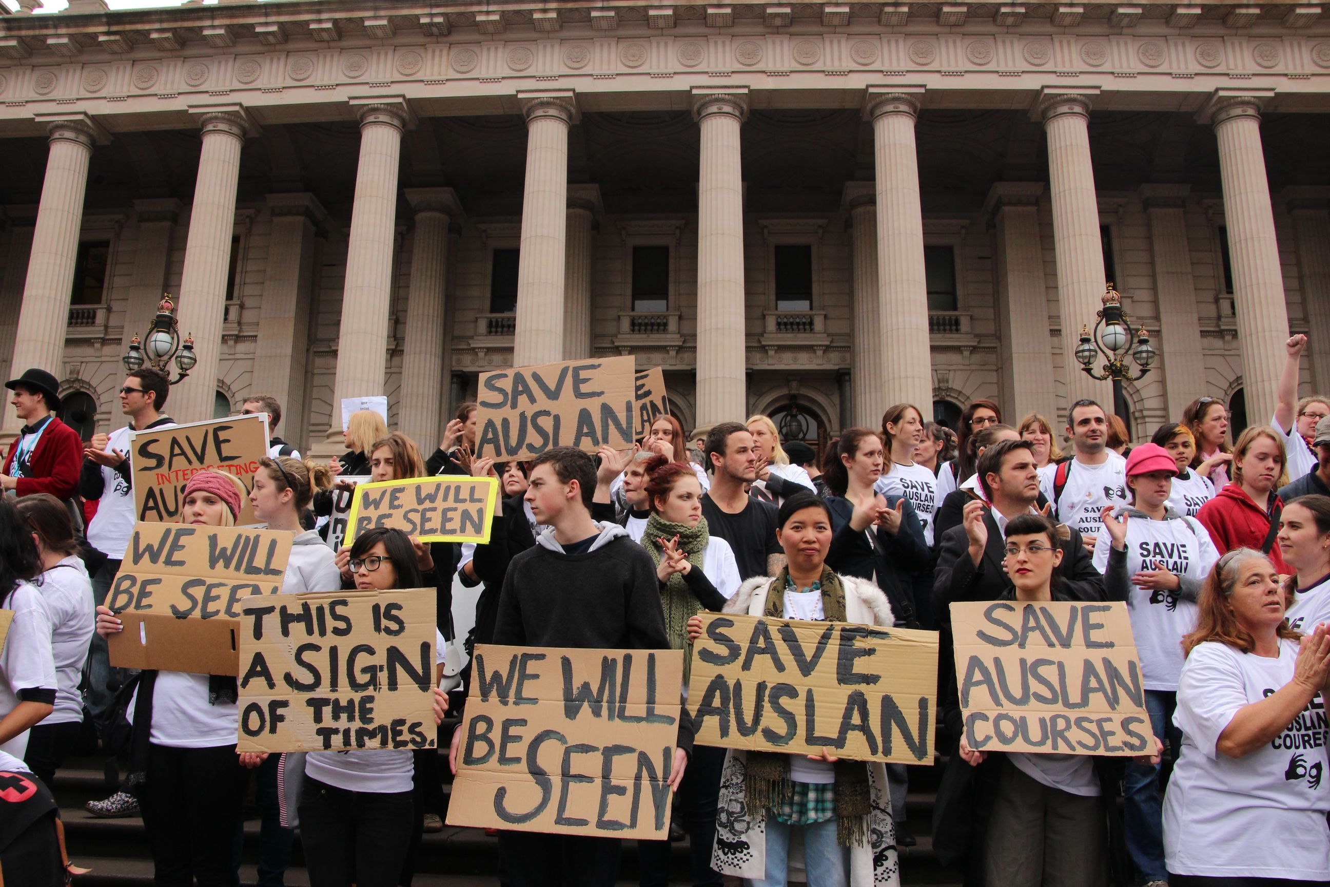 Save Auslan (the Australian sign language) campaign protesters in Melbourne.